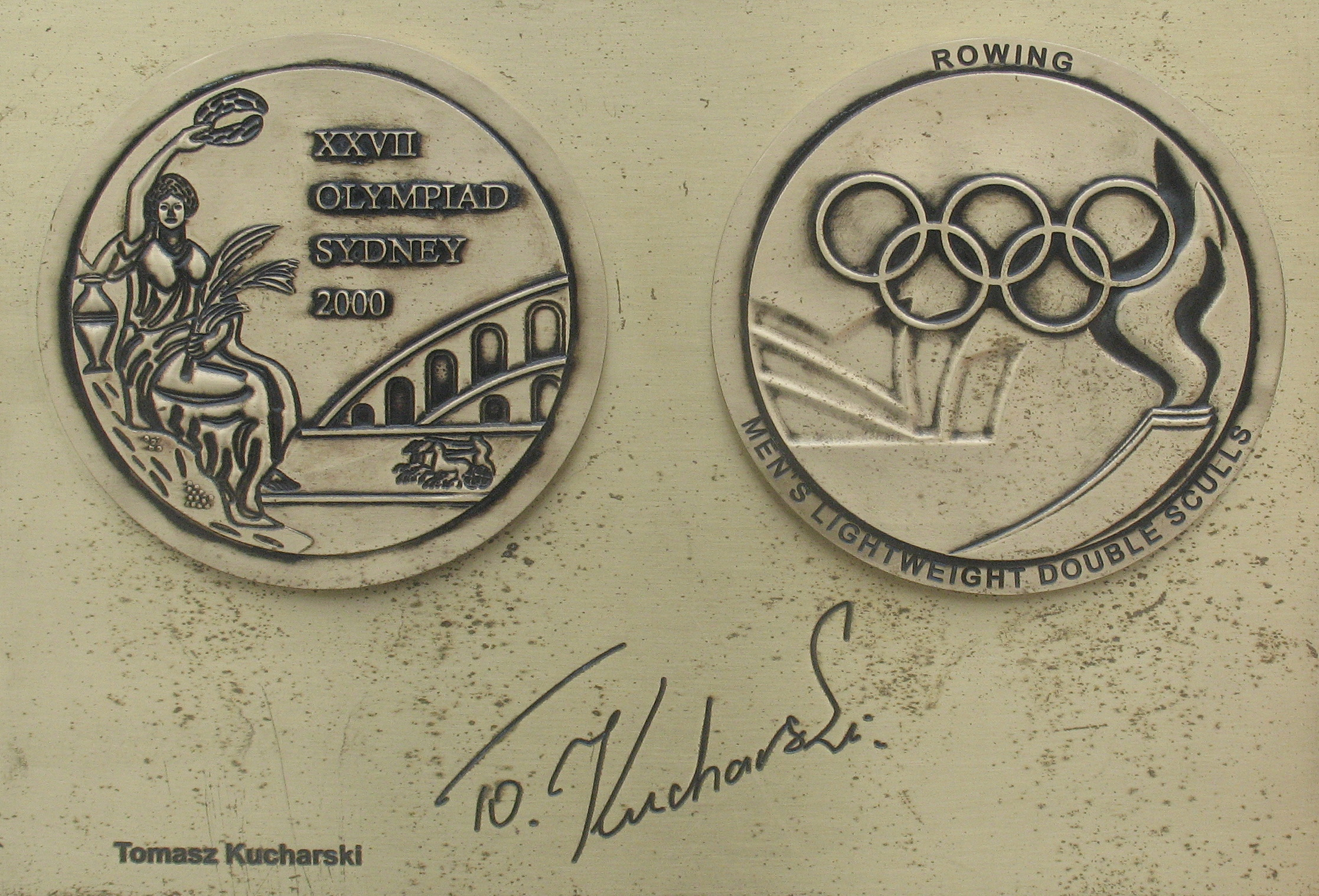 Tomasz Kucharski medal & autograph in Avenue of Sport Stars Dziwnów